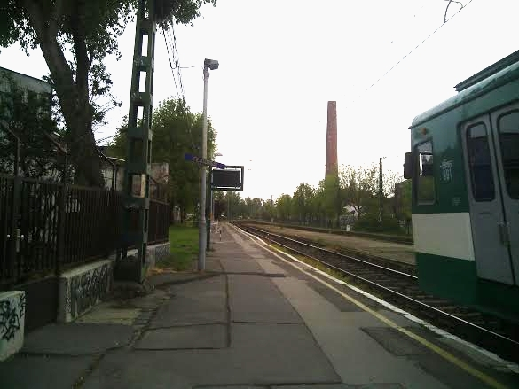 Filatorigát HÉV station